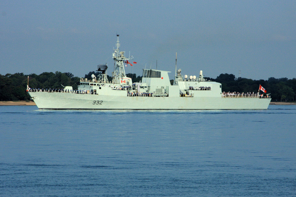 HMCS Ville de Québec (FFH 332), heading back home from Lake Huron